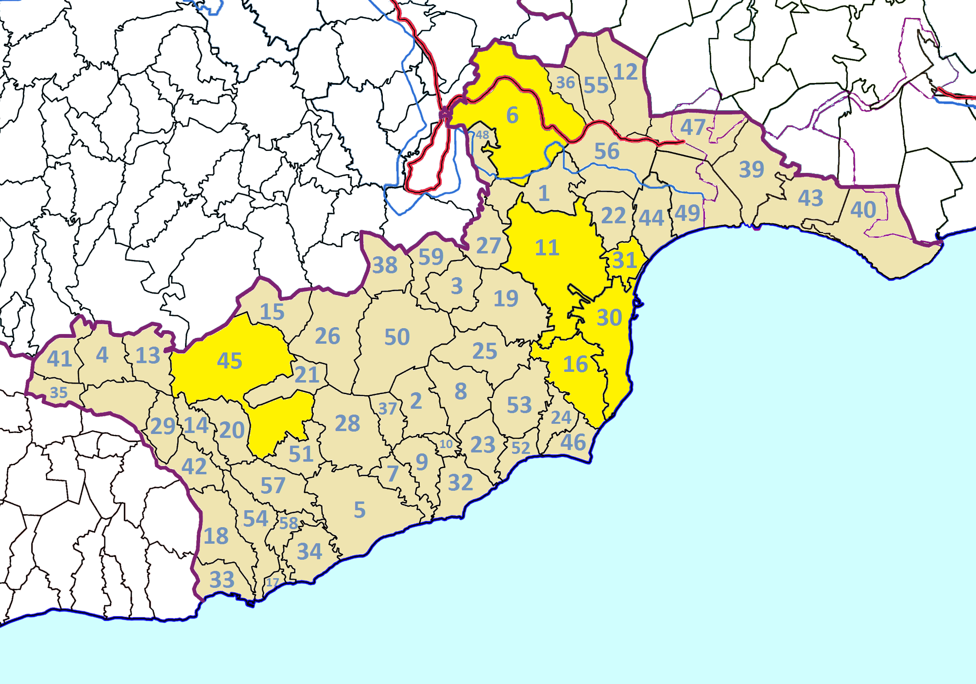 The municipalities and the communities of Larnaca District (the list is based on Greek alphabet).